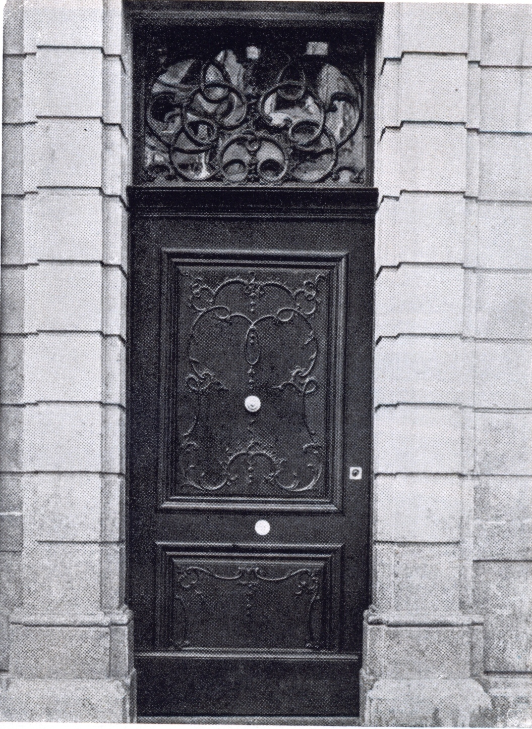 t